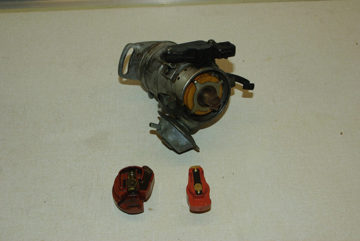 Ford distributor (Escort '87 XR3i, Bosch-Type)